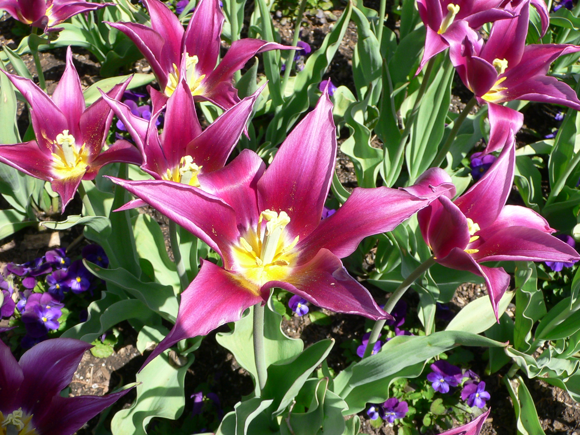 Pictures taken by myself at Longwood Gardens, Tulipa 'Maytime'